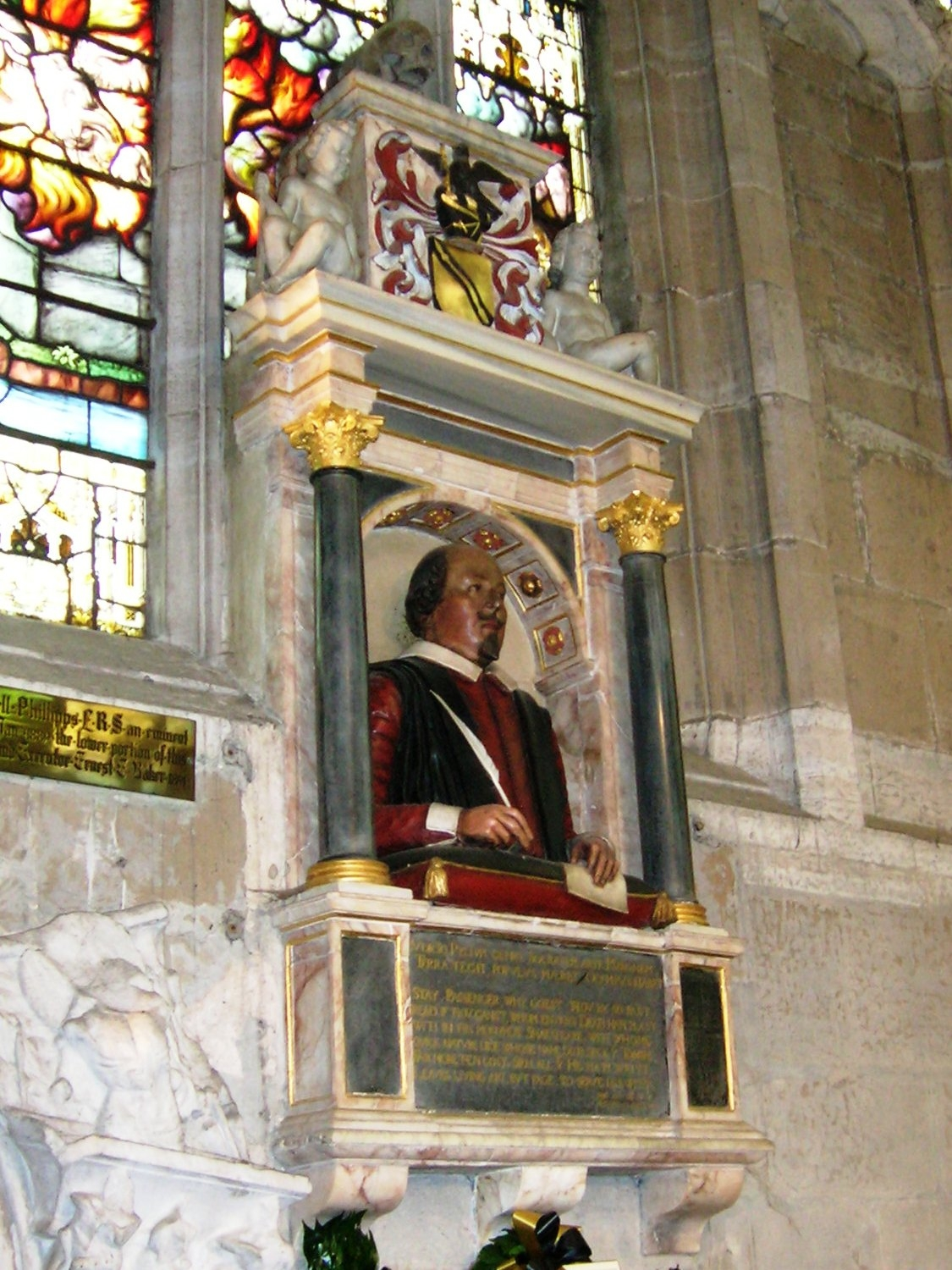 I am uploading this file at the request of User Tom Reedy who confirms to me that he created the image and is releasing all his rights into the public domain.